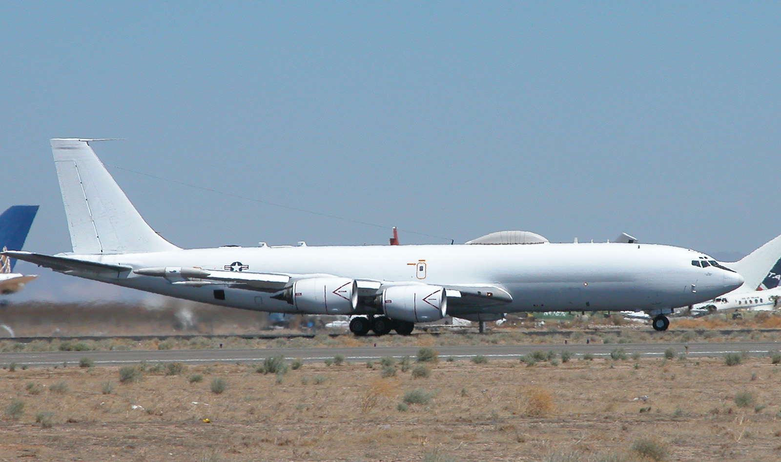 U.S. Navy E-6B Mercury at the Mojave Airport